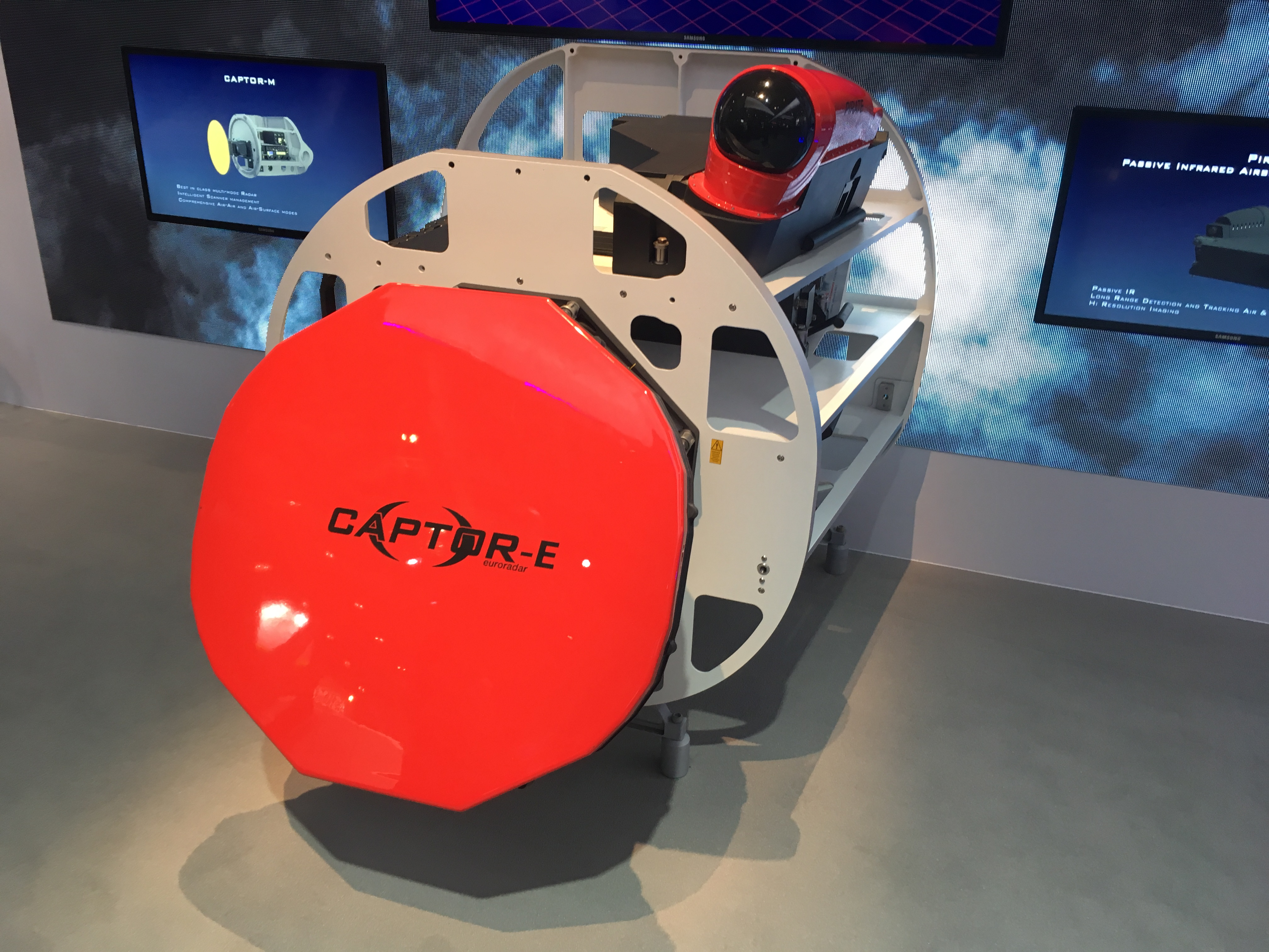 CAPTOR-E radar on DSEI-2019, London, UK